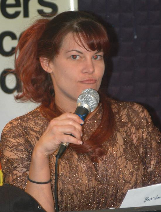 Rebecca Love at KSEXradio Listener Choice Awards 2005.